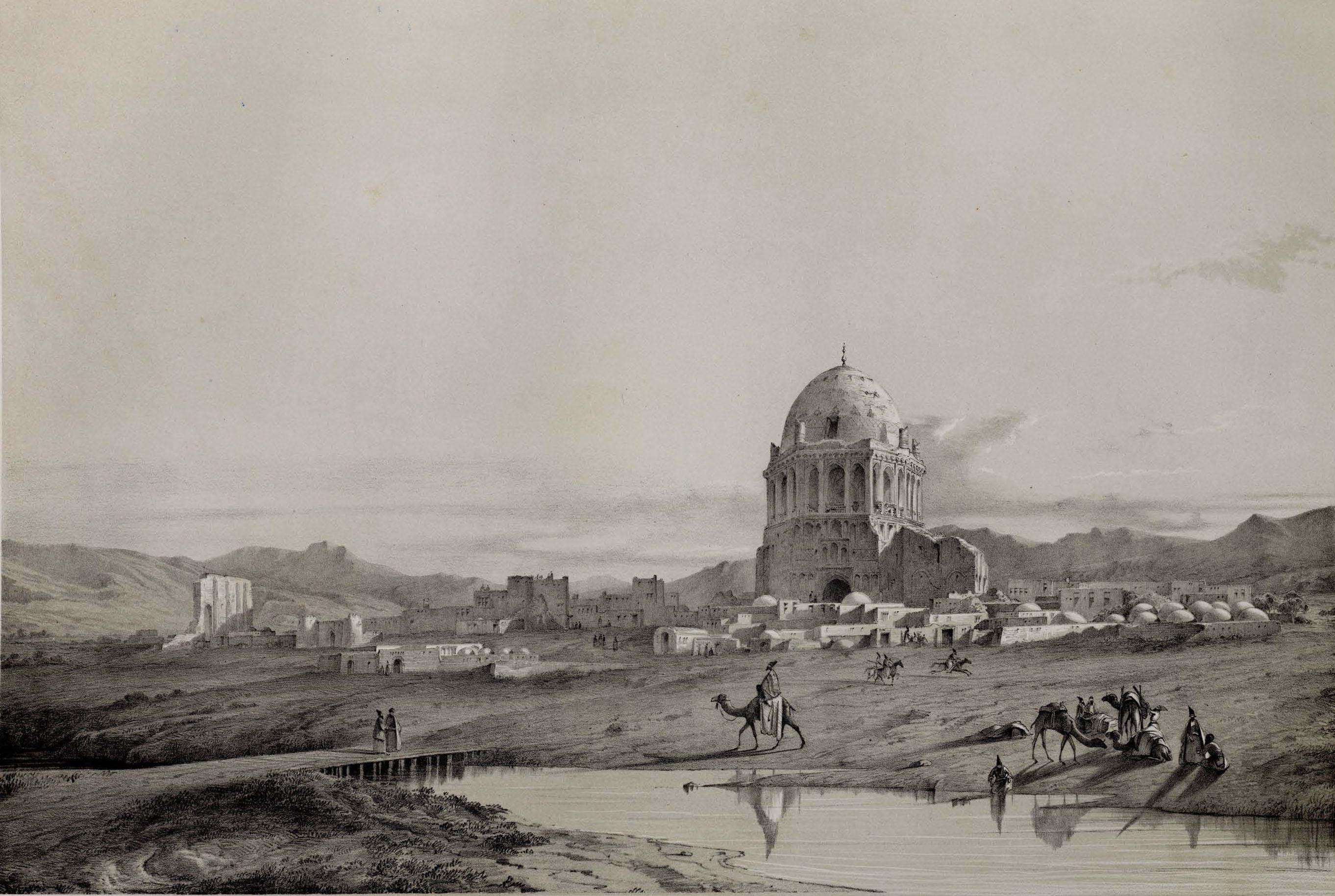 Village Sultanieh , Iran